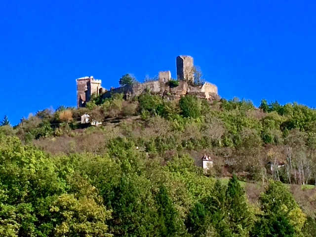 This castle "Les Tours de Saint-Laurent" was the residence of Mr. Jean Lurçat